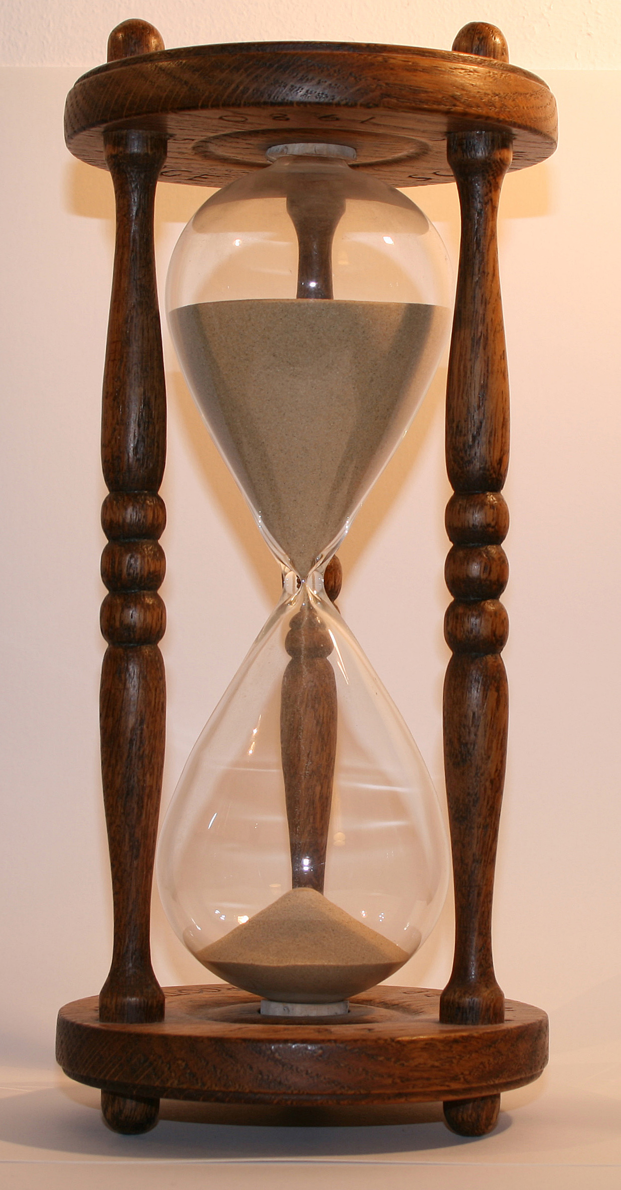 Alternative version of image:Wooden hourglass 2.jpg. Wooden hourglass. Total height:25 cm. Wooden disk diameter: 11.5 cm. Running time of the hourglass: 1 hour. Hourglass in other languages: 'timglas' (Swedish), 'sanduhr' (German), 'sablier' (French), 'reloj de arena' (Spanish), 'zandloper' (Dutch), 'klepsydra' (Polish), 'přesýpací hodiny' (Czech), 'ampulheta' (Portuguese).